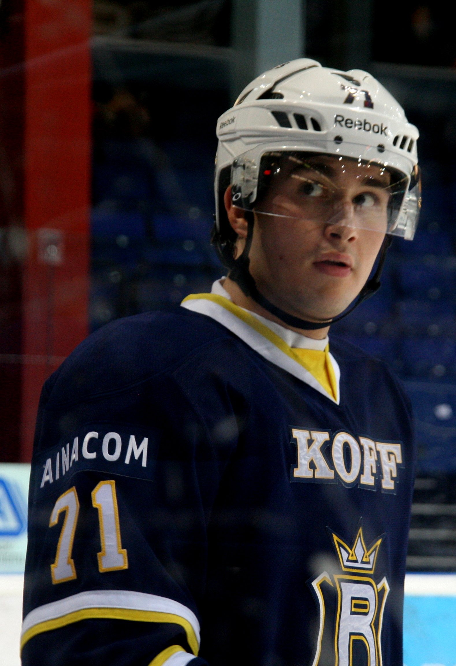 Ice Hockey Team Espoo Blues' Attacker #71 Matti Järvinen